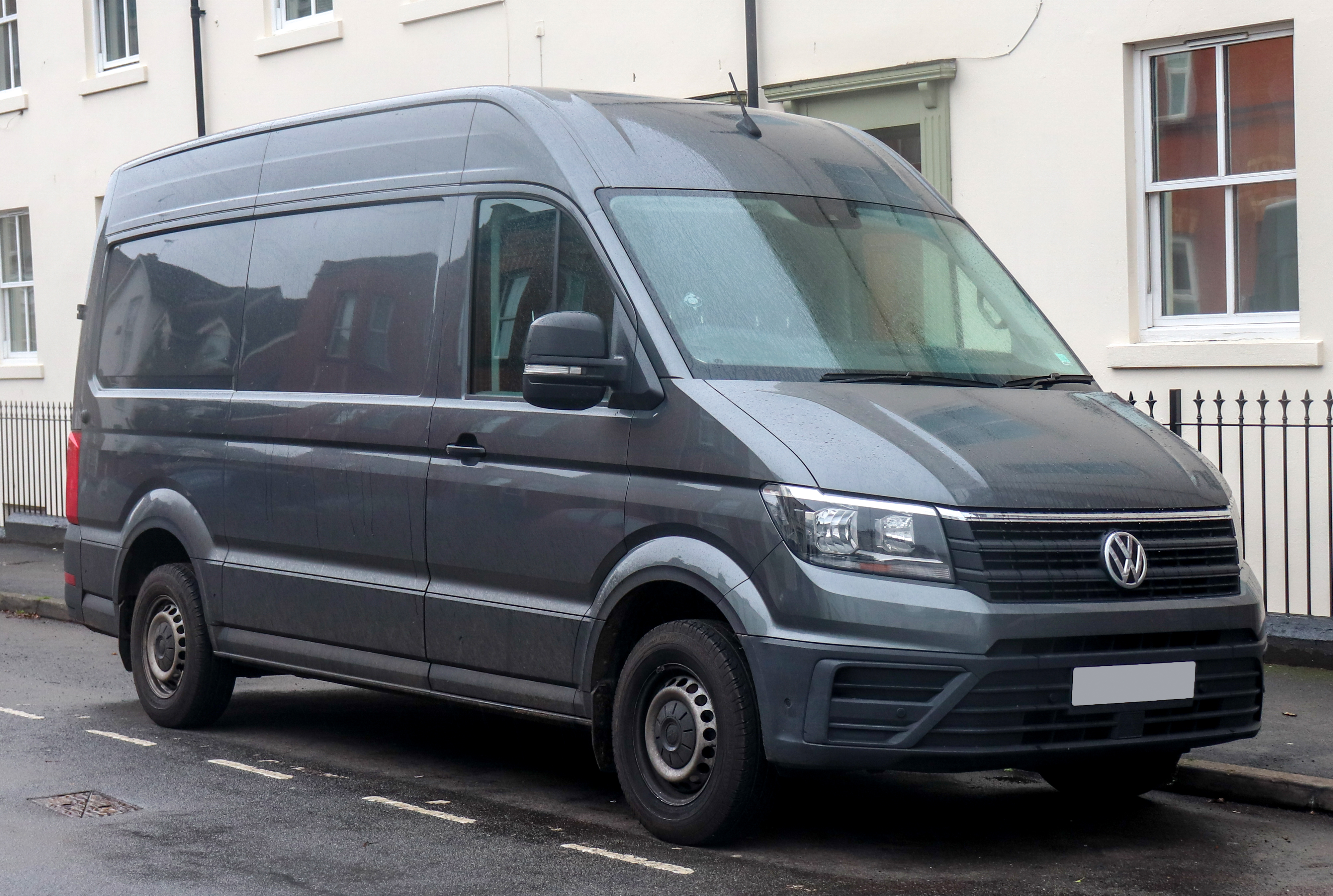 2017 Volkswagen Crafter CR35 Trendline TD 2.0 Front Taken in Leamington Spa